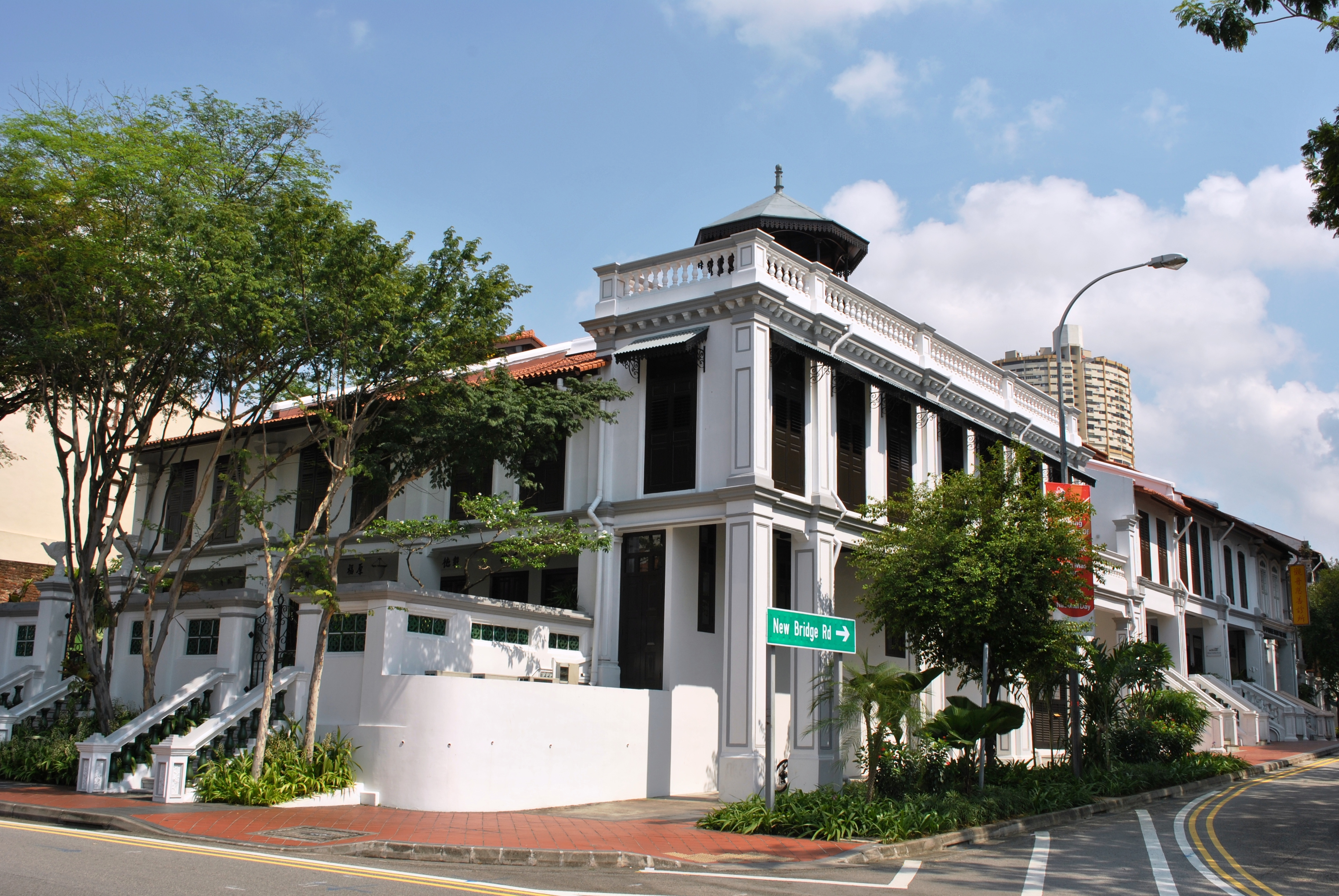 New Bridge Road